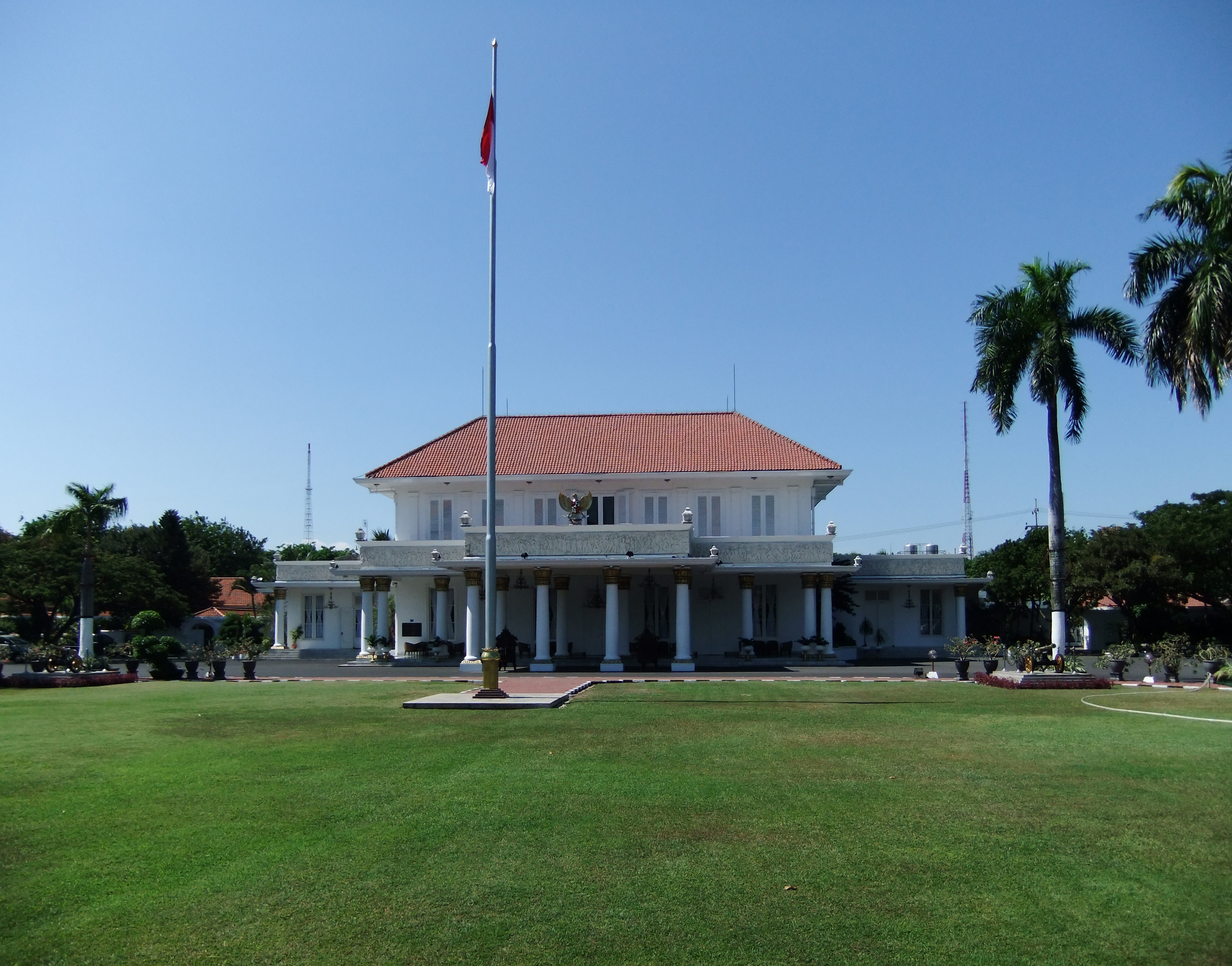 Grahadi Building, Surabaya